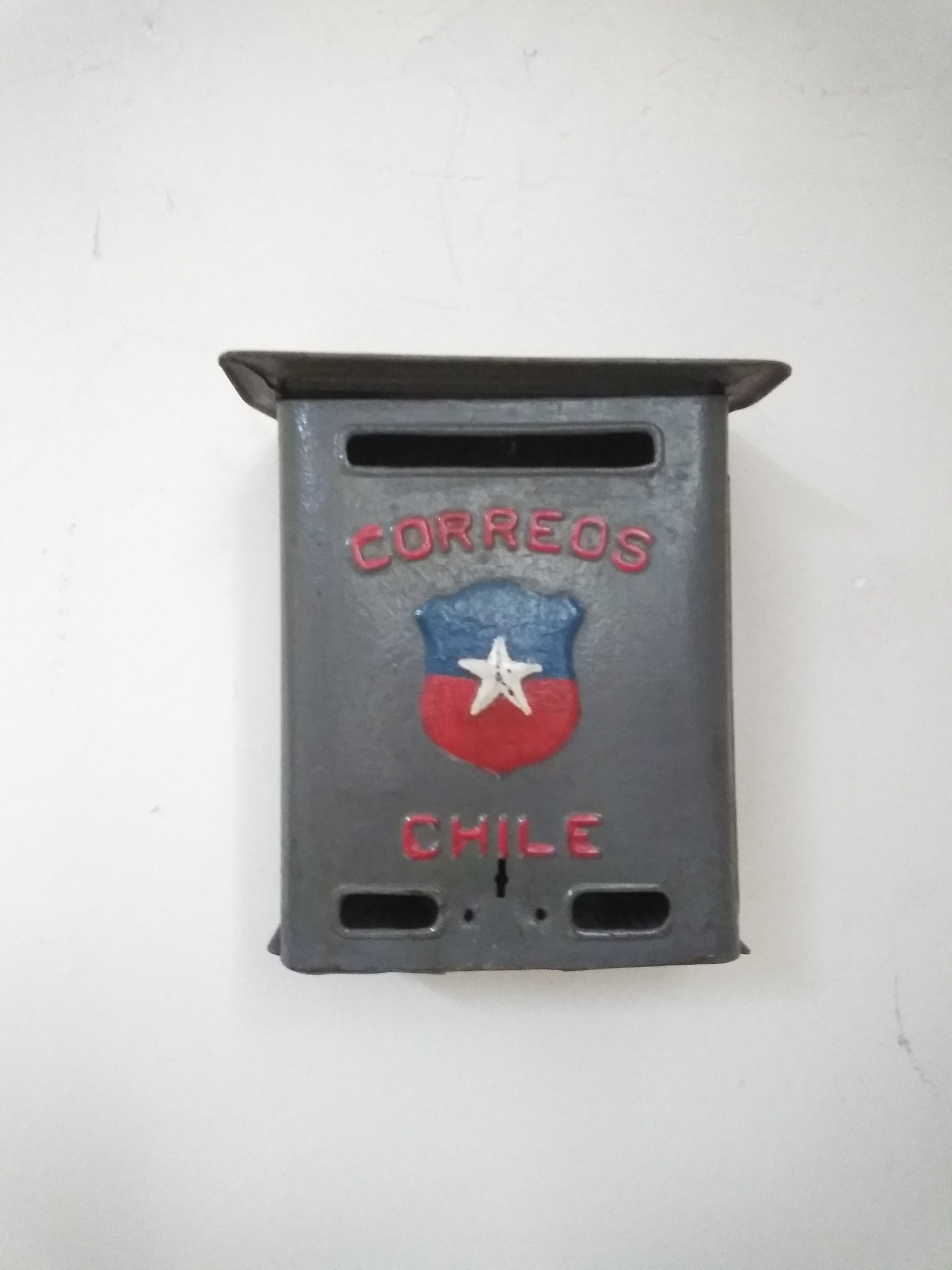 Old public mailbox, on display at Postal and Telegraphic Museum (Santiago, Chile)